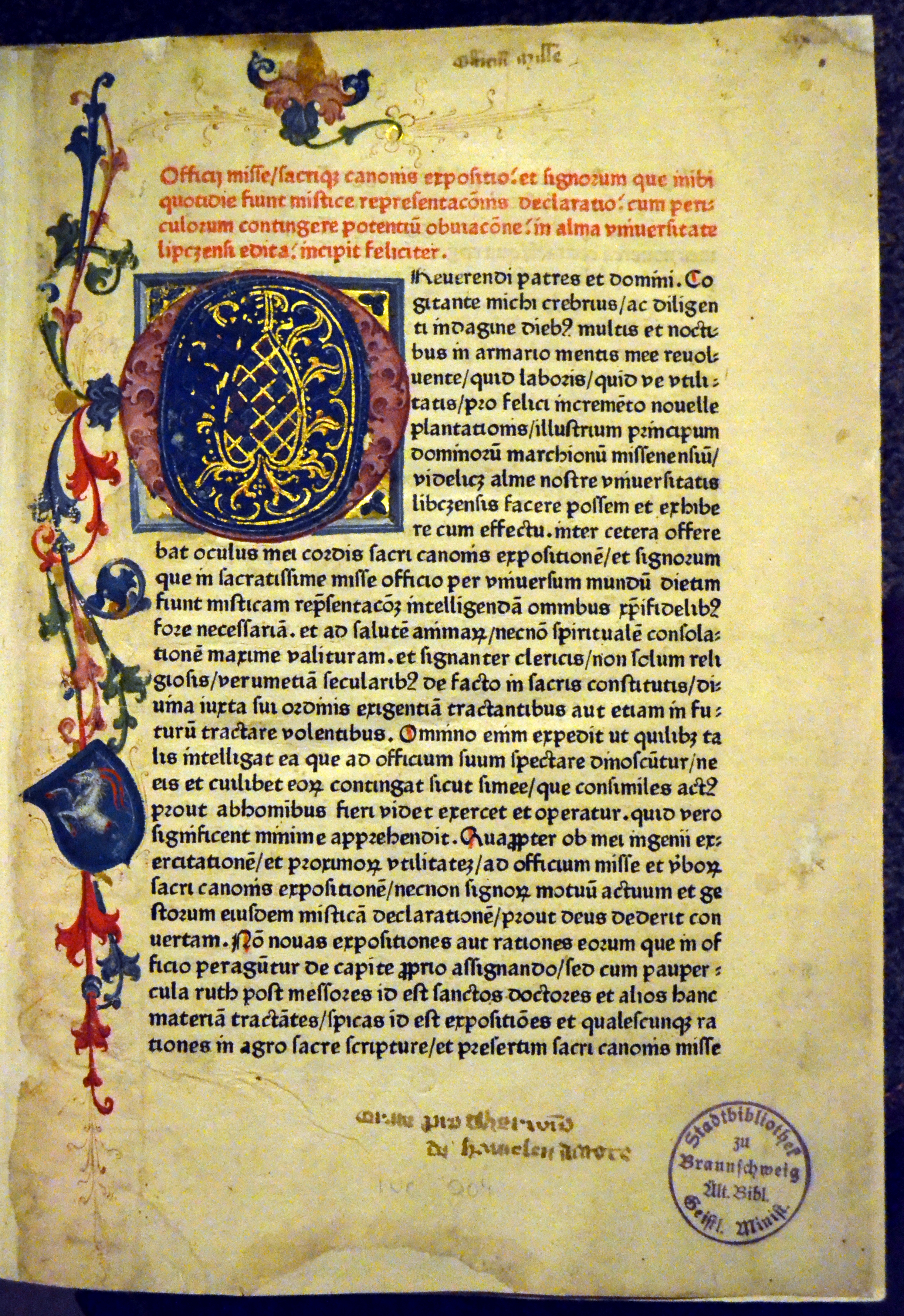 First page of a manuscript (around 1474) from the former library of Gerwins von Hameln taken from the Liberei in Braunschweig, Germany.